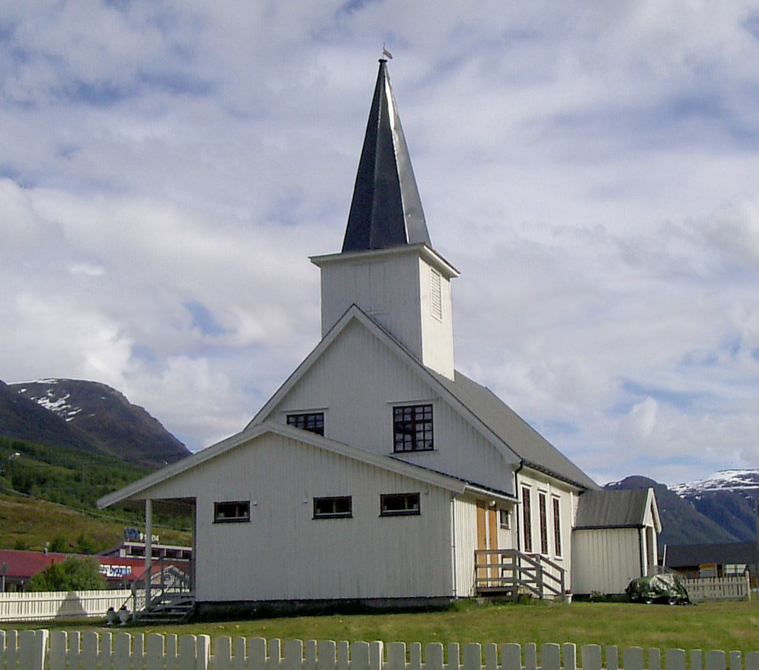 Church of Birtavarre, Gáivuotna - Kåfjord, Troms, Norway